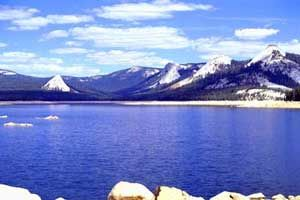 Courtright Reservoir, Sierra Nevada, California